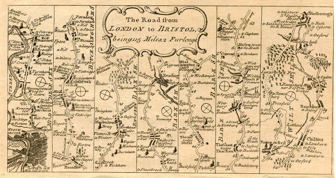 1768 Strip map - for London- Malborough?